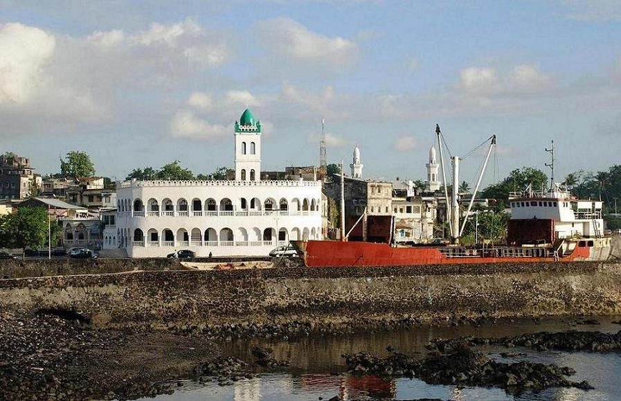 Moroni with Harbor Bay and Central Mosque, Capital of the Comoros